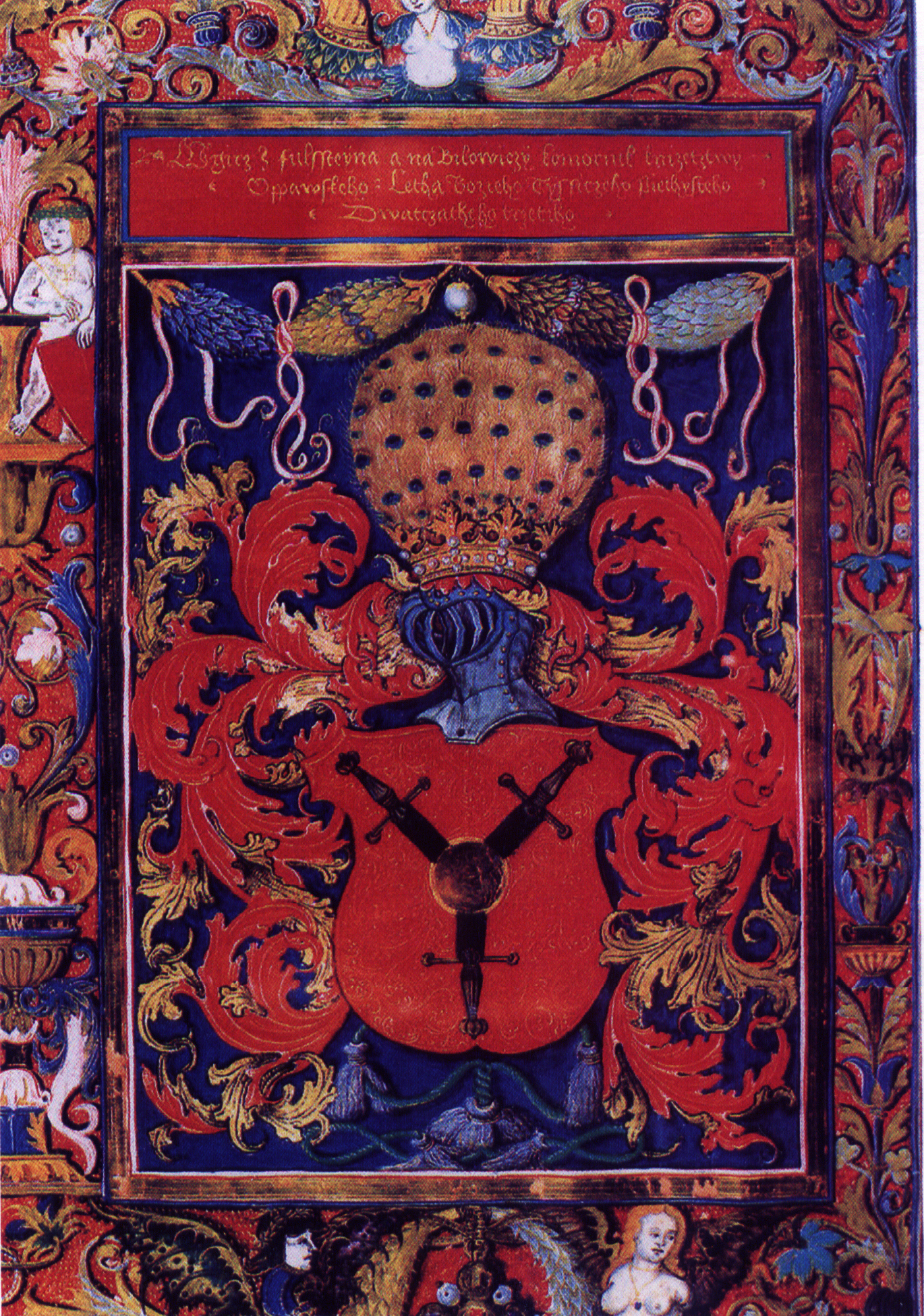 Coat of arms of Ojíř z Fulštejna from Zemské desky of Duchy of Opava.